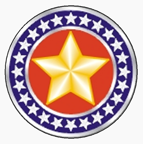 Old National Badge of Military Police - Brazil.